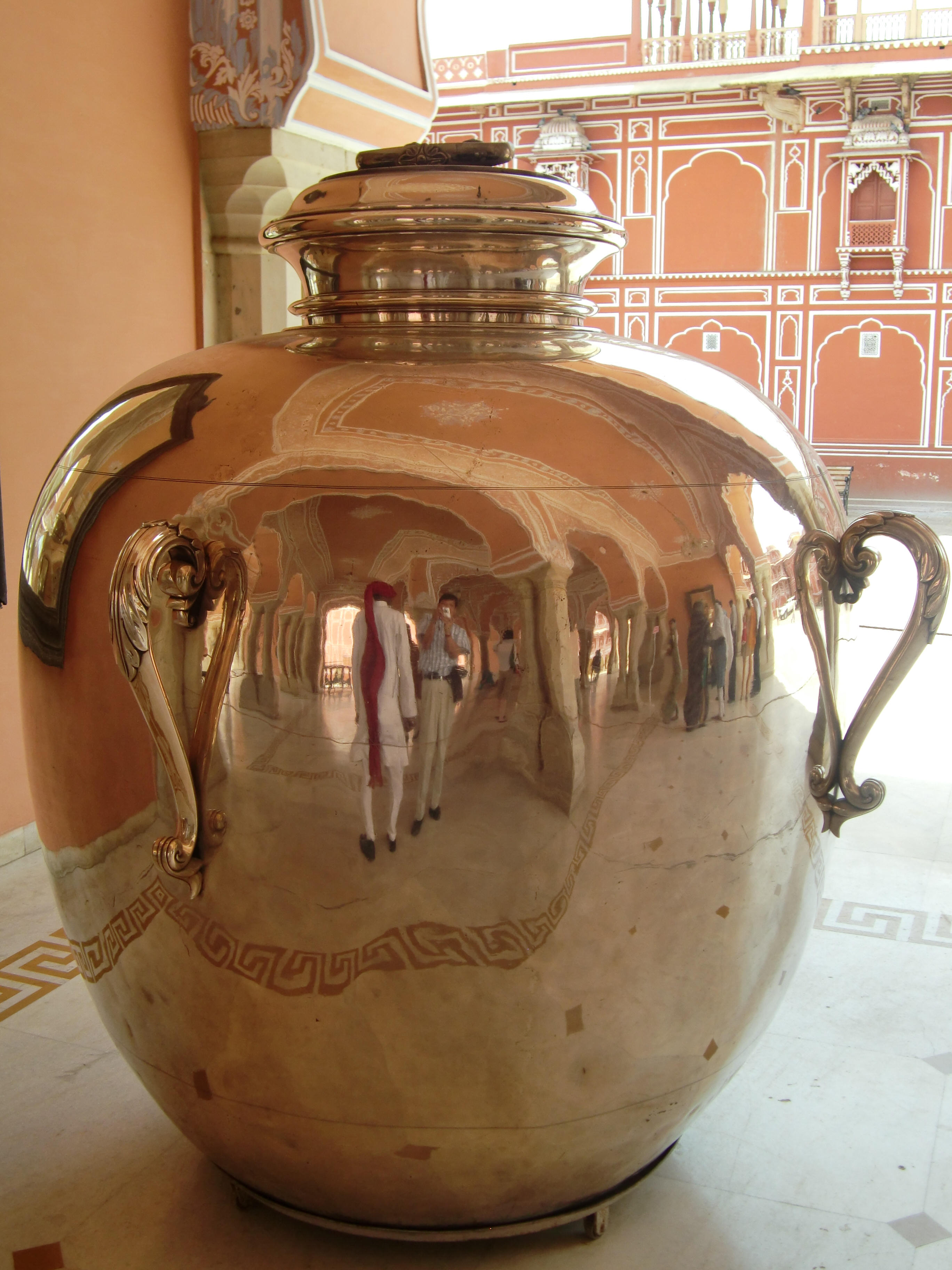 Big Silver Pot at city Palace Jaipul